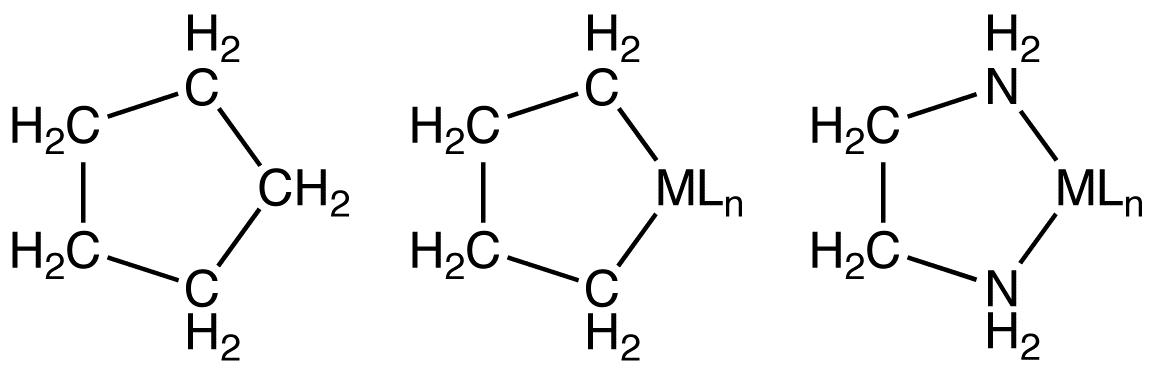 what is not a metallacycle